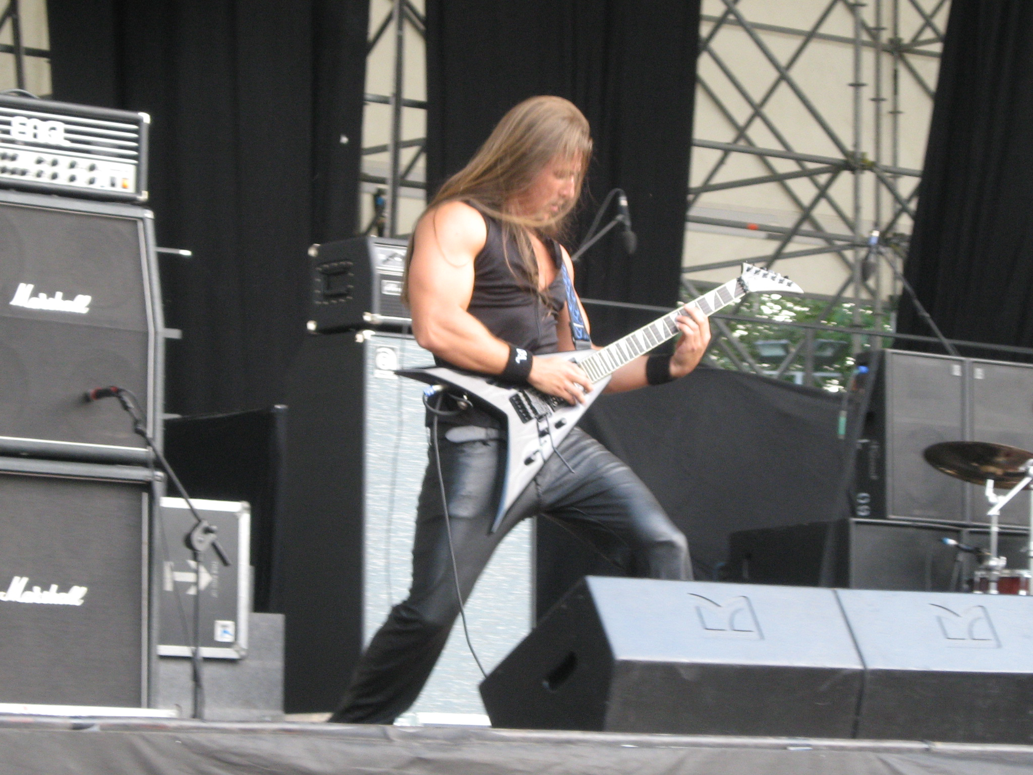 Vision Divine at Rockin' field festival in Milan, Italy (26 July 2008)